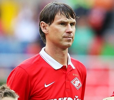 Egor Titov